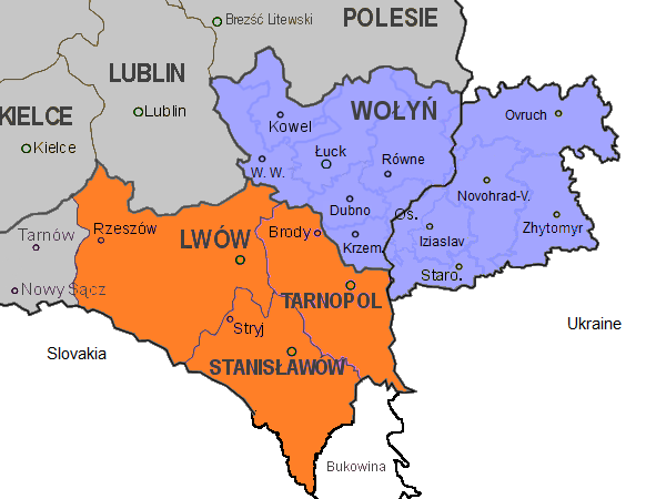 Map of the south-eastern part of Poland, within the borders of 1921-1939, as well as the eastern part of Volhynia. Highlighted in orange colour are the three Polish voivodeships of Lwów, Stanisławów, and Tarnopol which form the eastern part of Galicia. Areas in grey are other Polish voivodeships. In blue the Polish voivodeship of Wołyń, with the black border separating the eastern part which was part of the Ukrainian Soviet Socialist Republic. Both parts form the historical region of Volhynia. The internal borders in blue in Volhynia are the old pre-war districts with their capital towns. Abbreviations of towns in Volhynia: W. W.: Włodzimierz Wołyński Novohrad-V.: Novohrad-Volynskyi Os.: Ostróg Staro.: Starokostiantyniv Krem.: Krzemieniec